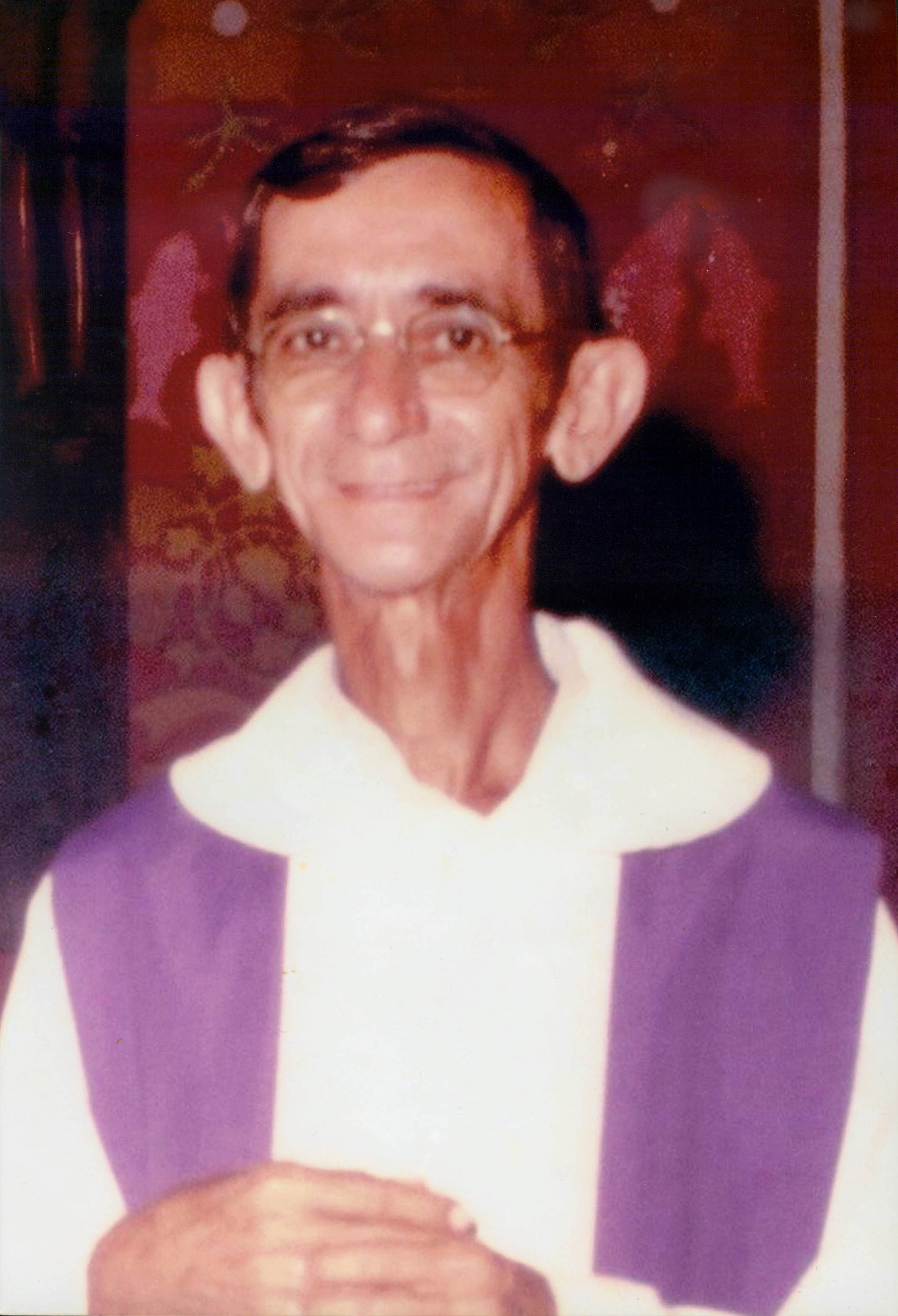 Igreja Nossa senhora de Lourdes